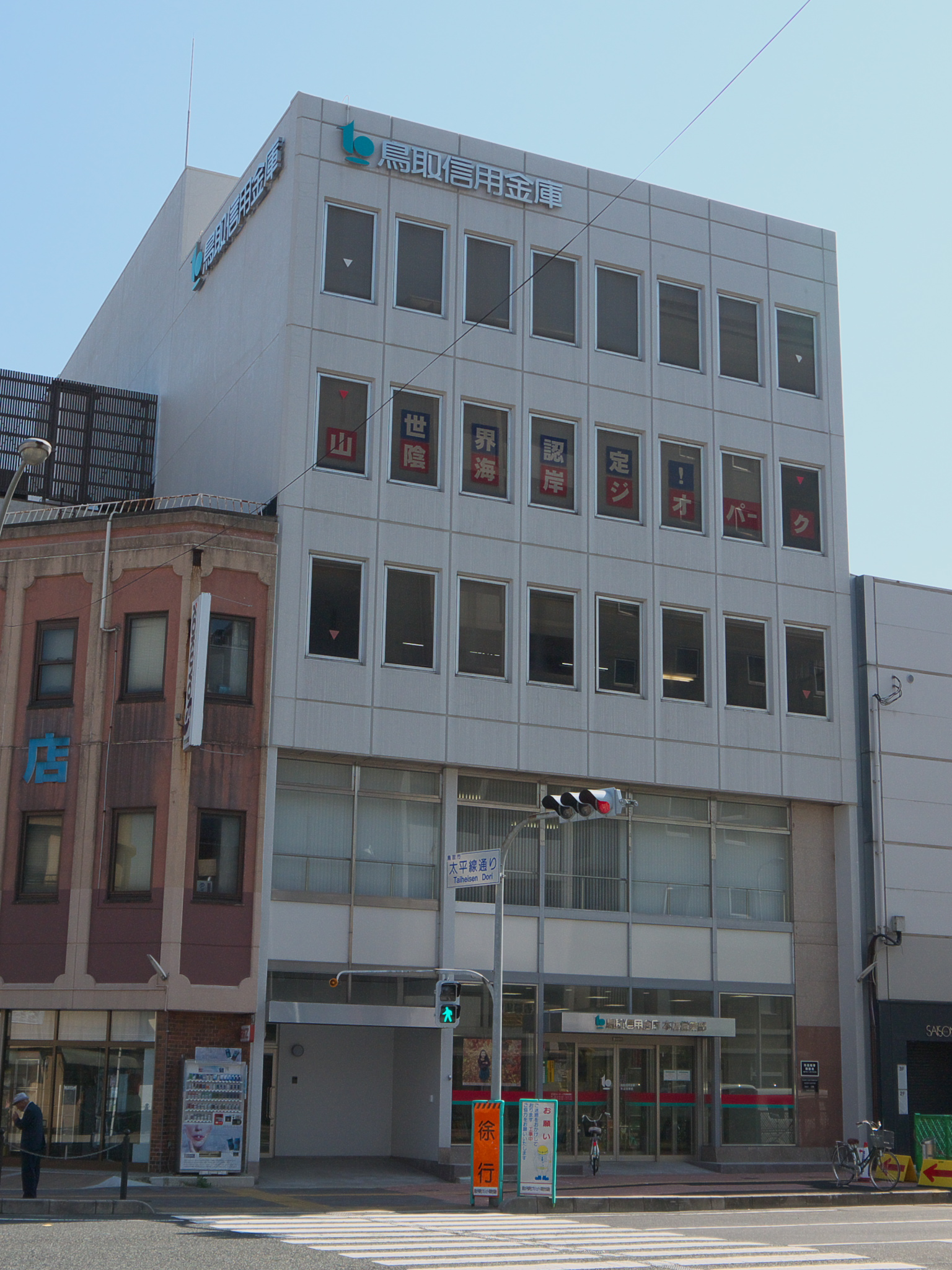 Tottori Shinkin Bank head store